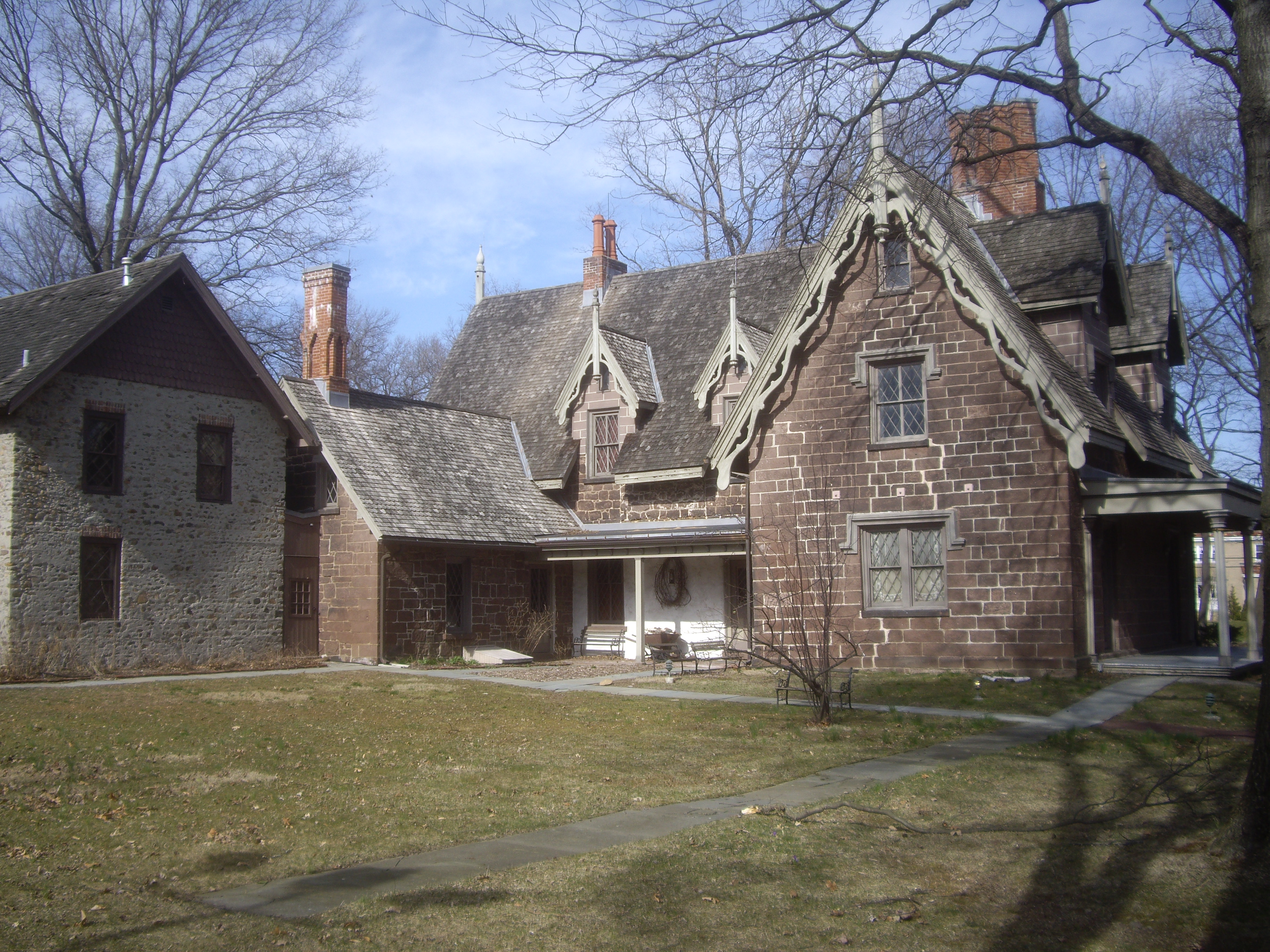 Hermitage, Ho-Ho-Kus, NJ, rear